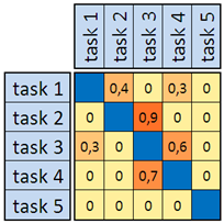 Example of a numerical Design Structure Matrix